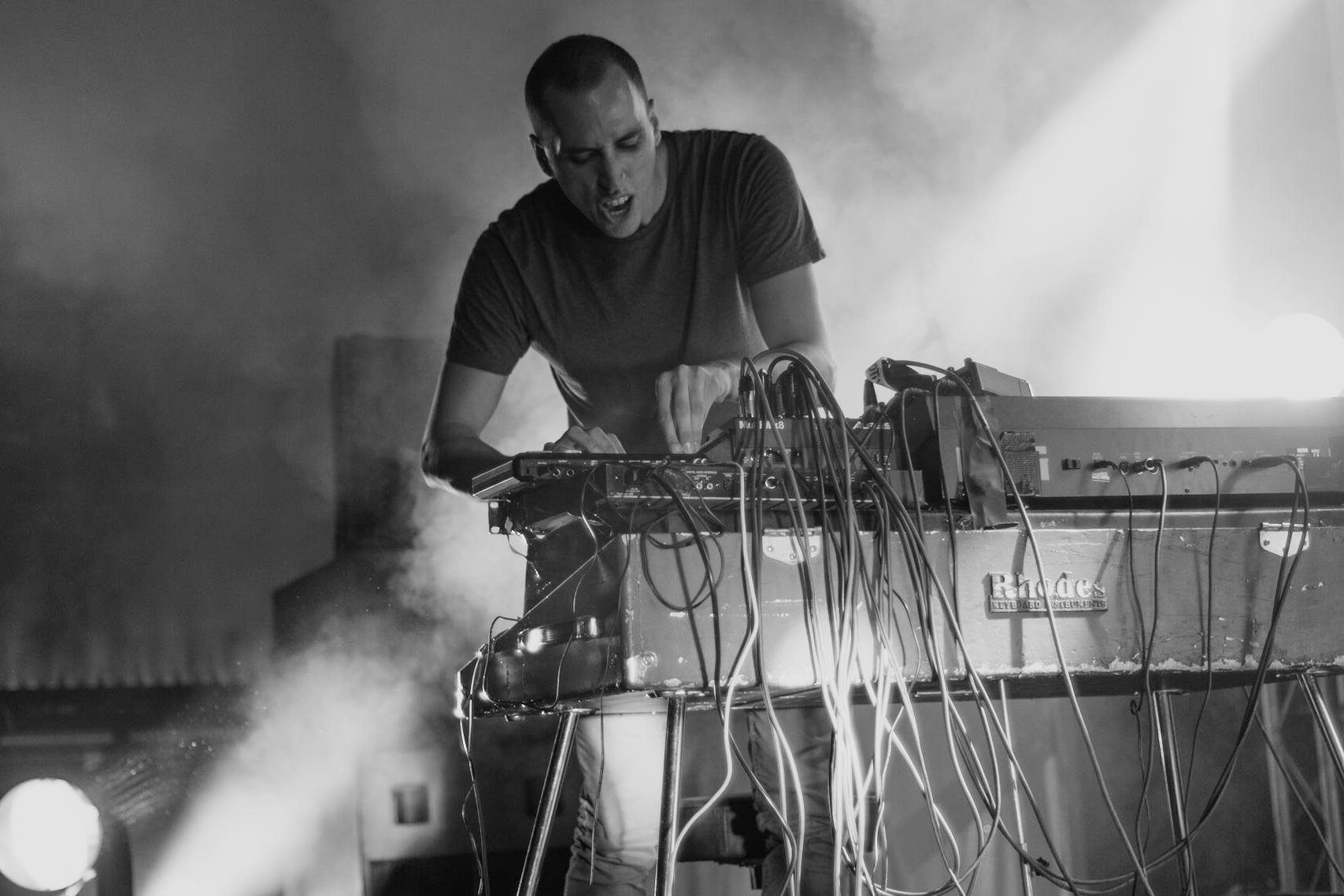 Martin Kohlstedt (German composer and pianist) live at the Fuchsbau Festival, Germany, 2015